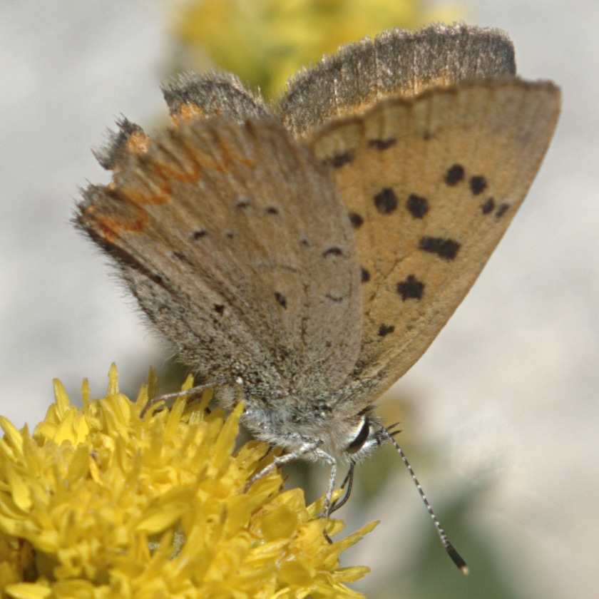 Female Lycaena dorcas castro, formerly called Lycaena helloides, Purplish Copper, same individual as in File:Lycaena helloides pair.jpg, on same Solidago simplex. Near the Santa Fe Ski Basin, Santa Fe National Forest, New Mexico. Thanks to David J. Ferguson at for confirming ID and pointing out new name.